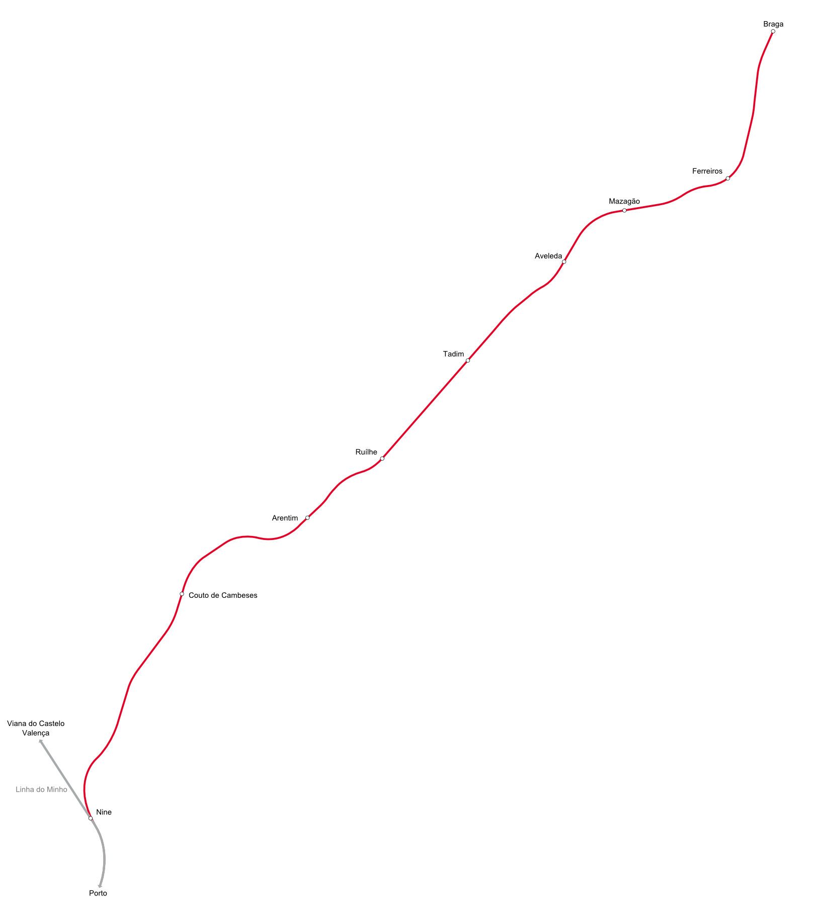 Map of Braga's Branch without the title.